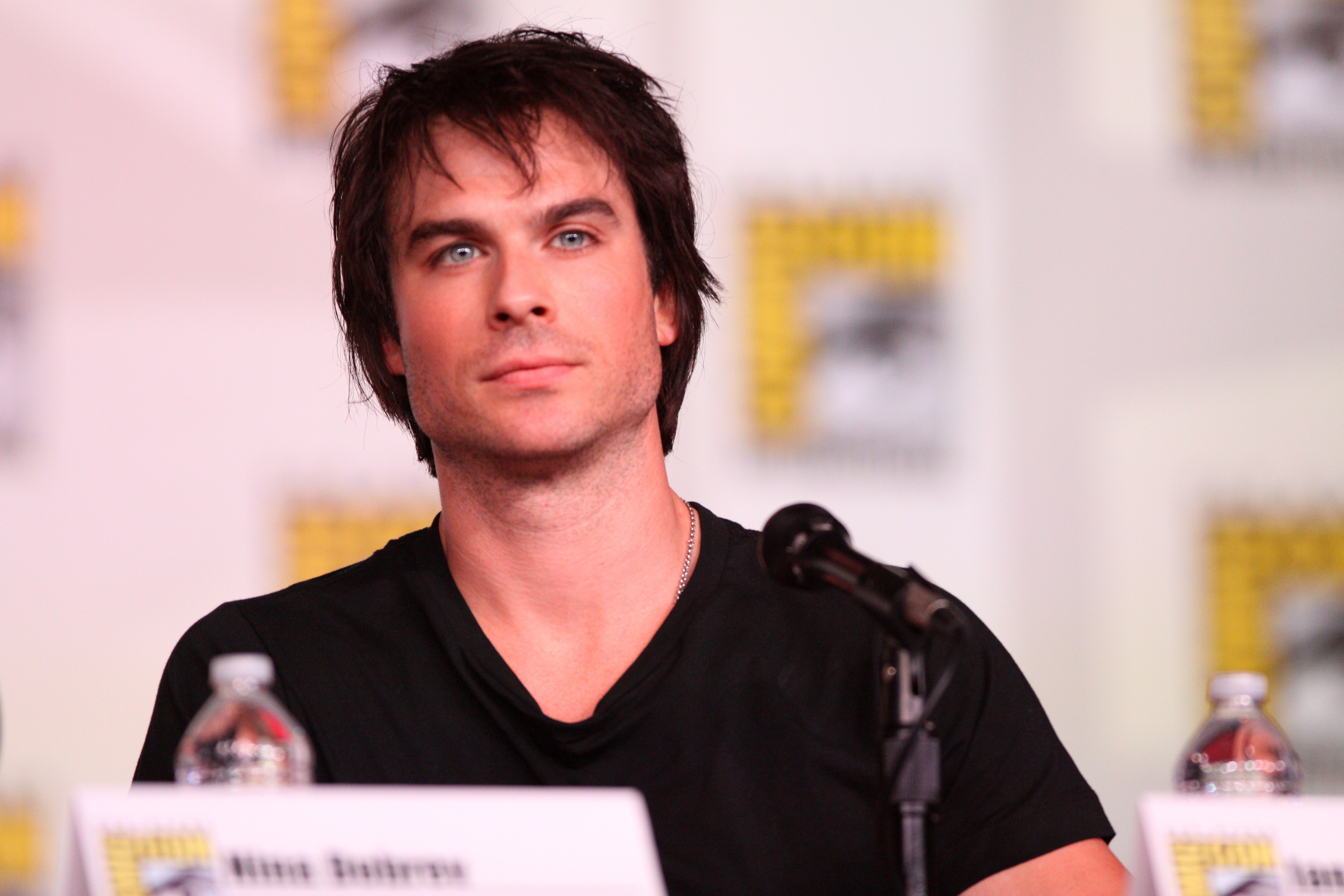 Ian Somerhalder speaking at the 2012 San Diego Comic-Con International in San Diego, California.